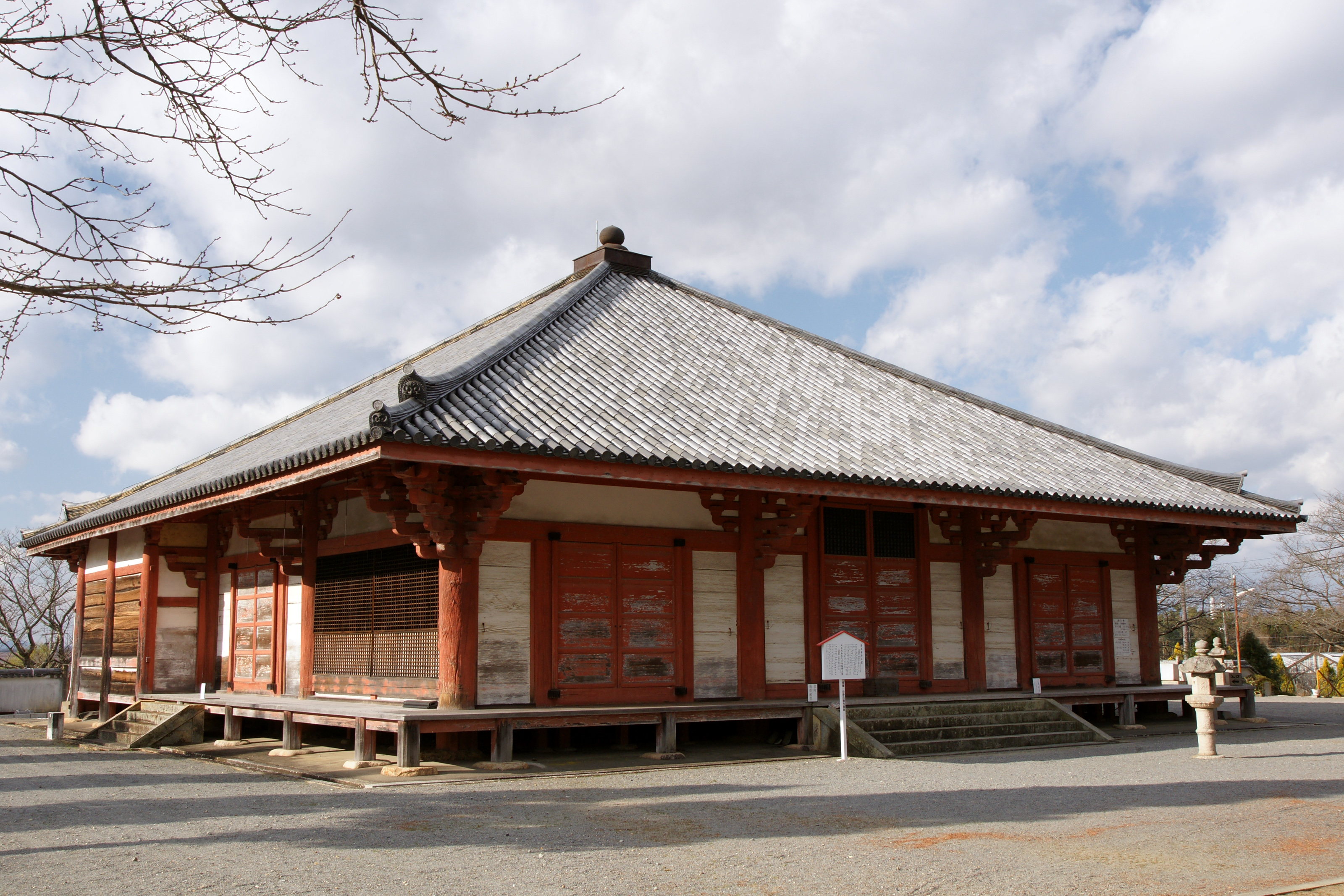 Jododo of Jōdo-ji Buddhist temple (Japan's National Treasure) in Ono, Hyogo prefecture, Japan. This architecture in Daibutsuyō (大仏様/Daibutsu style) that is combining design of Japan and China. It was built in 1194.